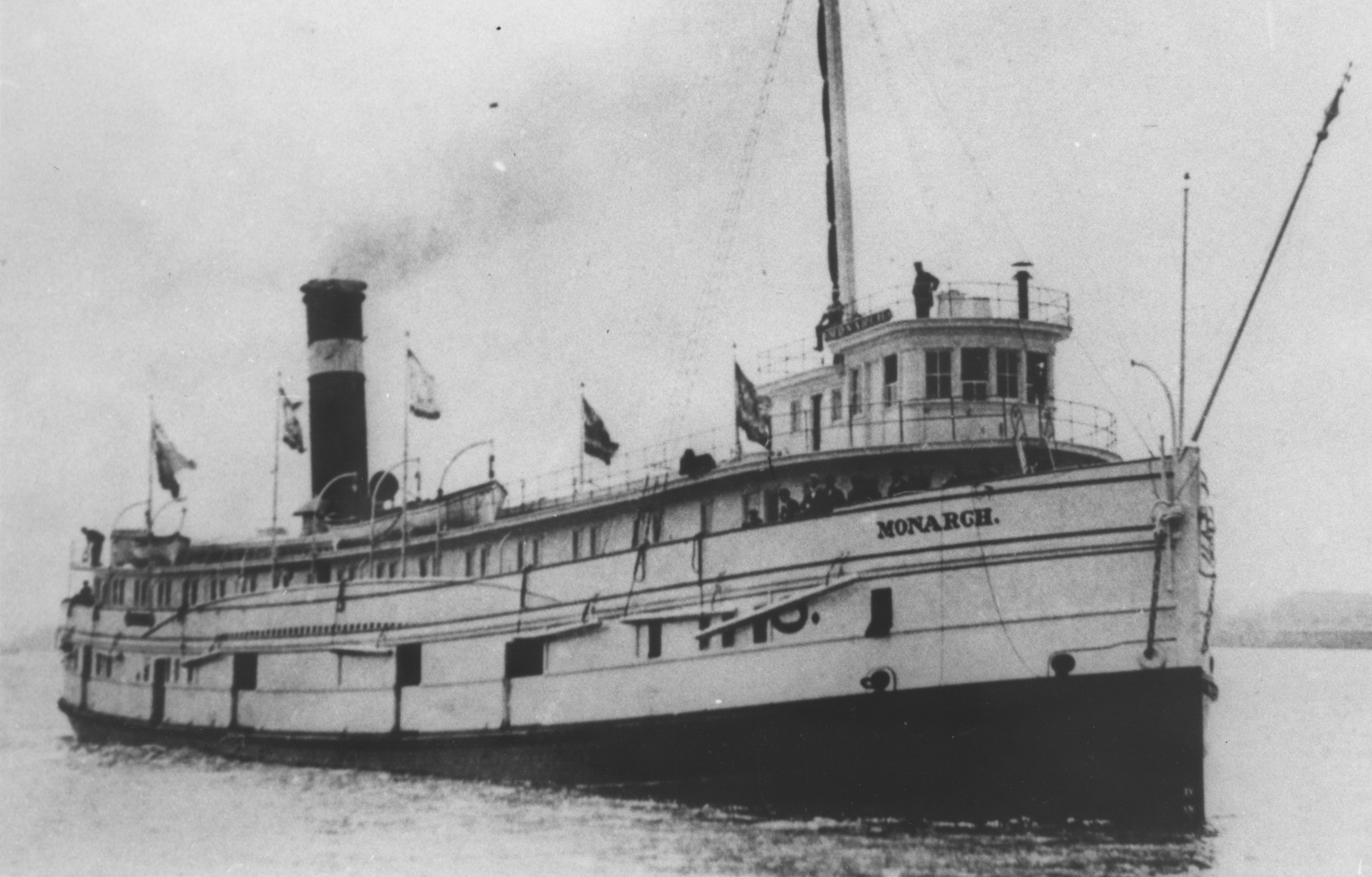 The steamer Monarch prior to her sinking